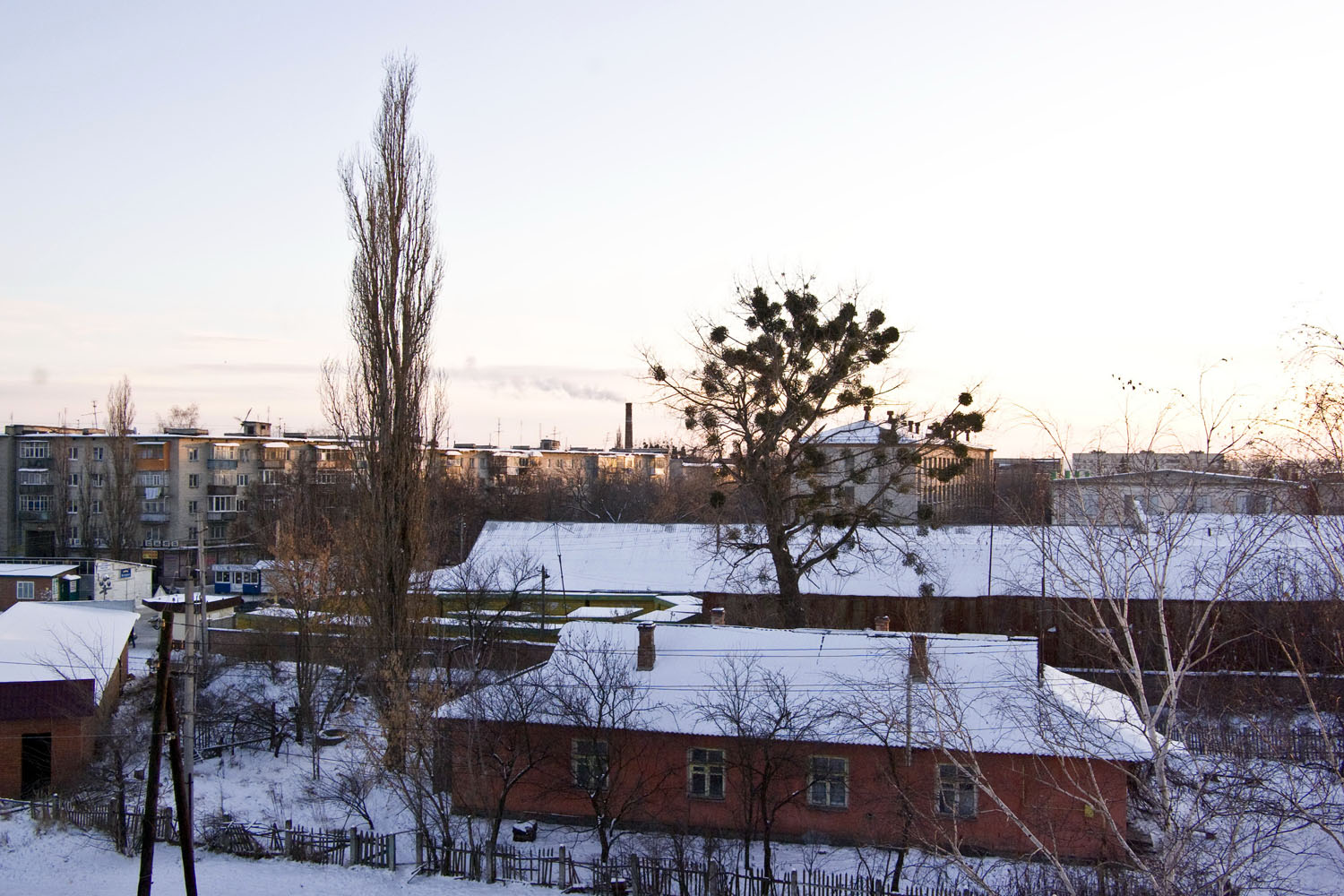 View of Zmiiv from the railway station, Kharkiv Oblast, Ukraine